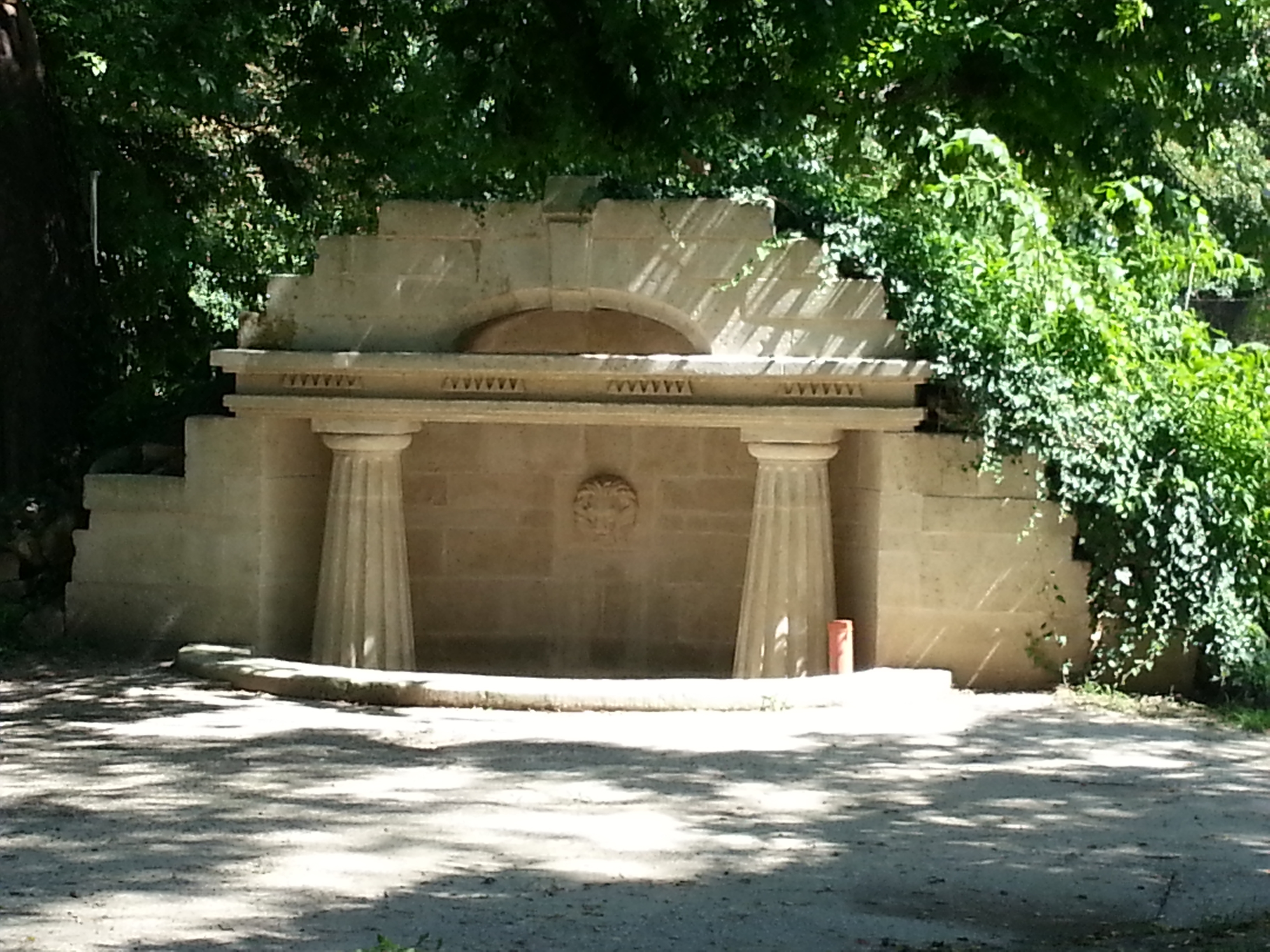 "Roman fountain" in the Festetics castle park (Dég, Hungary)